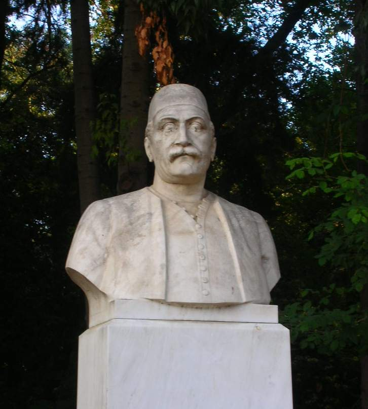 Monument of Andreas Miaoulis in Athens, own photo Gepsimos